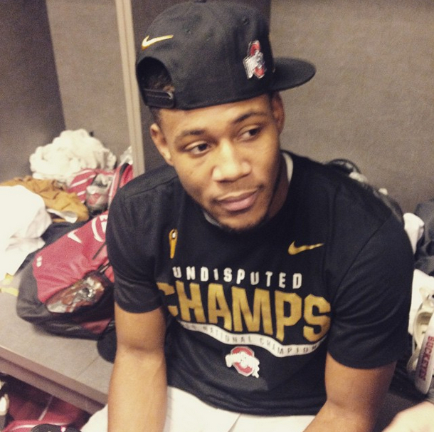 Vonn Bell sitting in his locker after 42-20 win ober Oregon in National Chamionship.